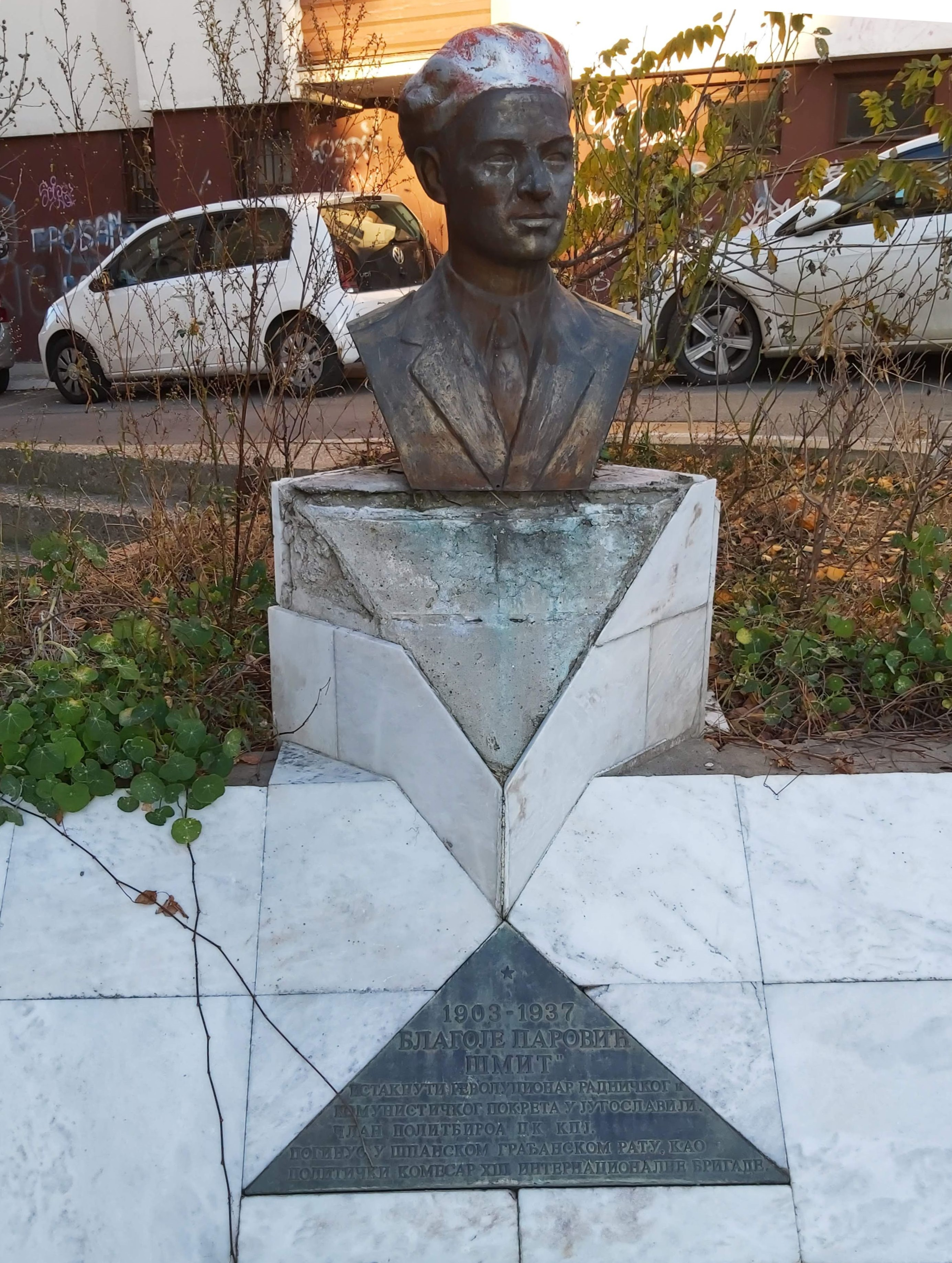 Statue of Blagoje Parovic Српски (ћирилица): Биста Благоја Паровића